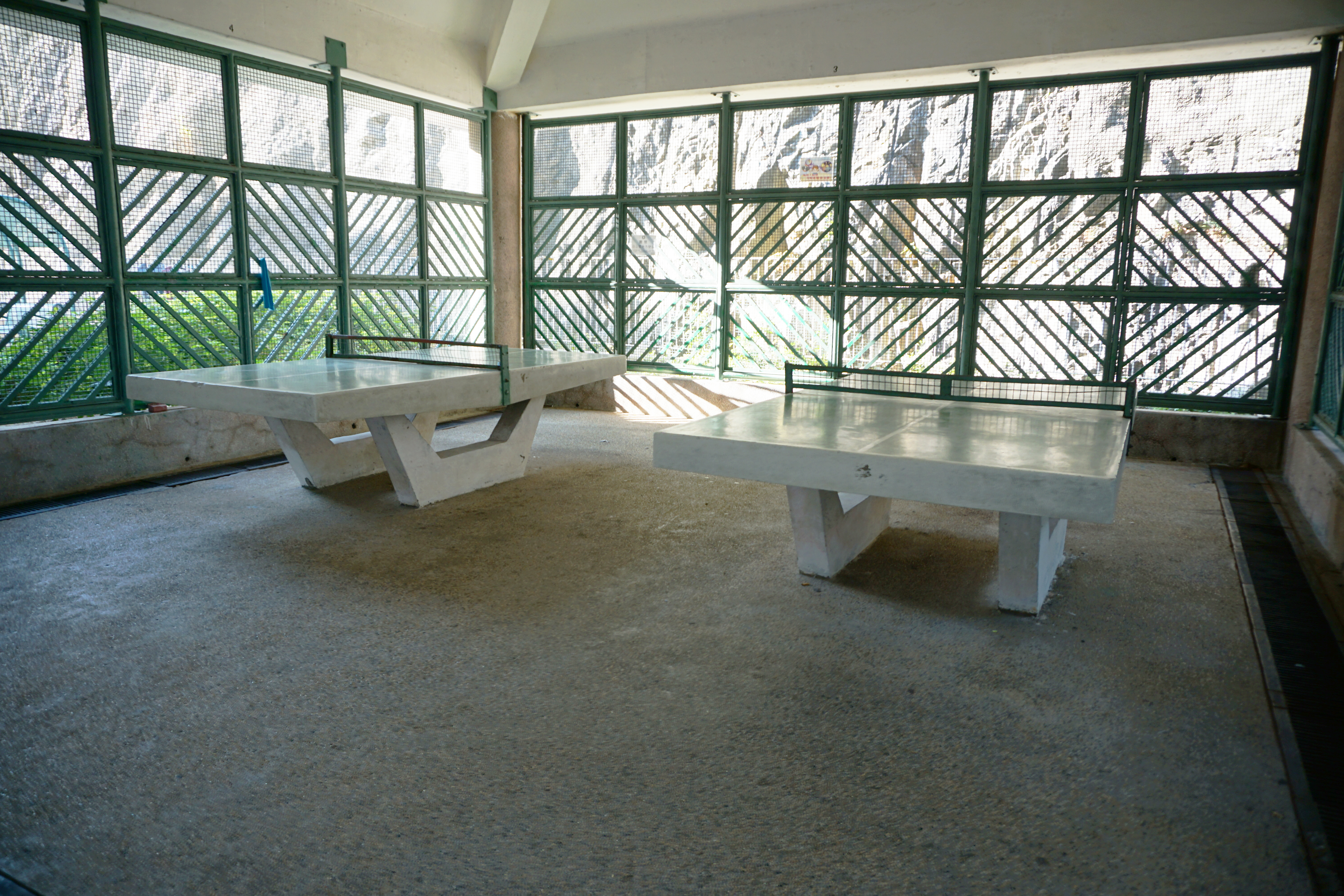 Shek Yam East Estate in Shek Yam, Hong Kong.